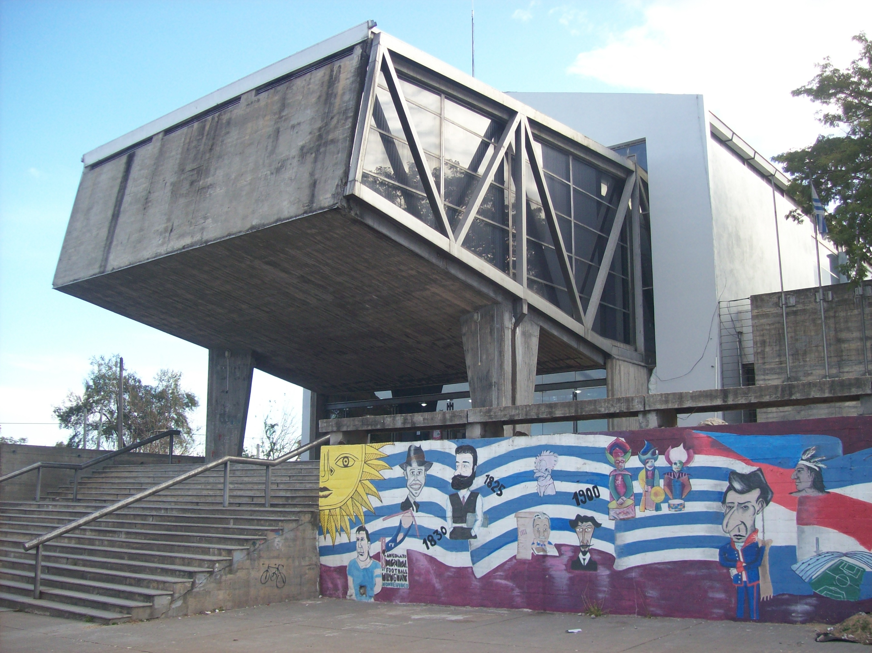 Centro Regional de Profesores in Salto, Uruguay